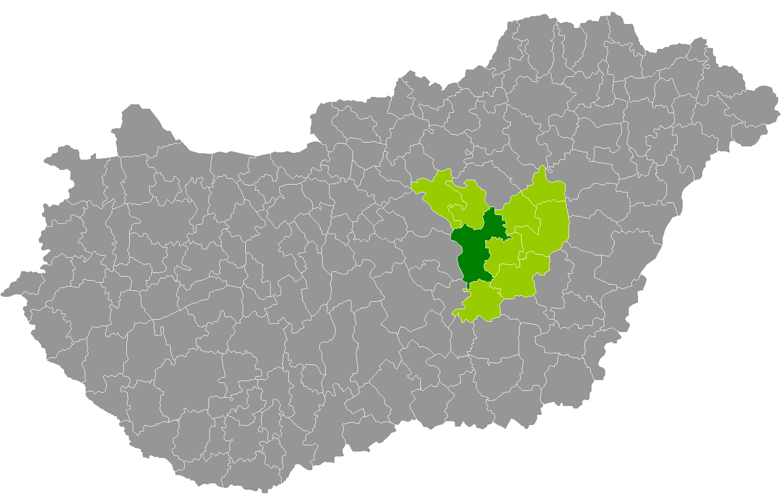 Location of Szolnok District, Jász-Nagykun-Szolnok, Hungary